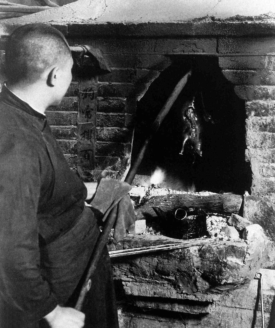 This is a picture of a Peking duck being roasted in a hung oven in a Quanjude restaurant in Beijing, taken by German photographer Helen Morrison in 1933. The photo is in the public domain because it's published in China over 50 years ago, and before the dates mentioned in the tag below.